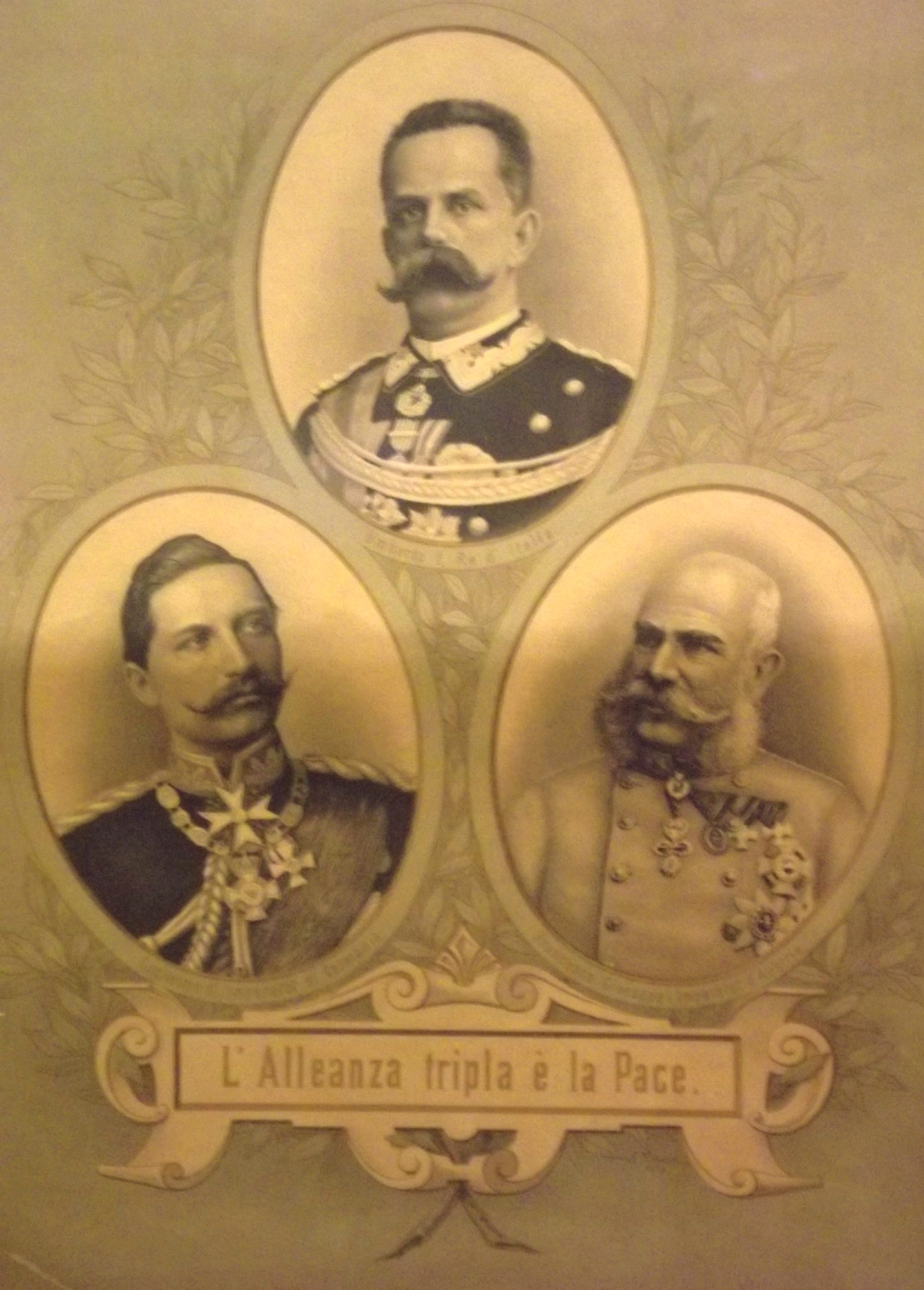 Print that celebrates the Triple Alliance (1882) with pictures of the kings of Italy (Umberto I), Germany (Wilhelm II) and Austria (Francis Joseph). Below: "The triple alliance is peace".